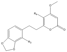 The structure of the sixth class of kavalactones, to be used on the Kavalactones page. Drawn in ChemDraw 10.0 by Yidele, July 2007.